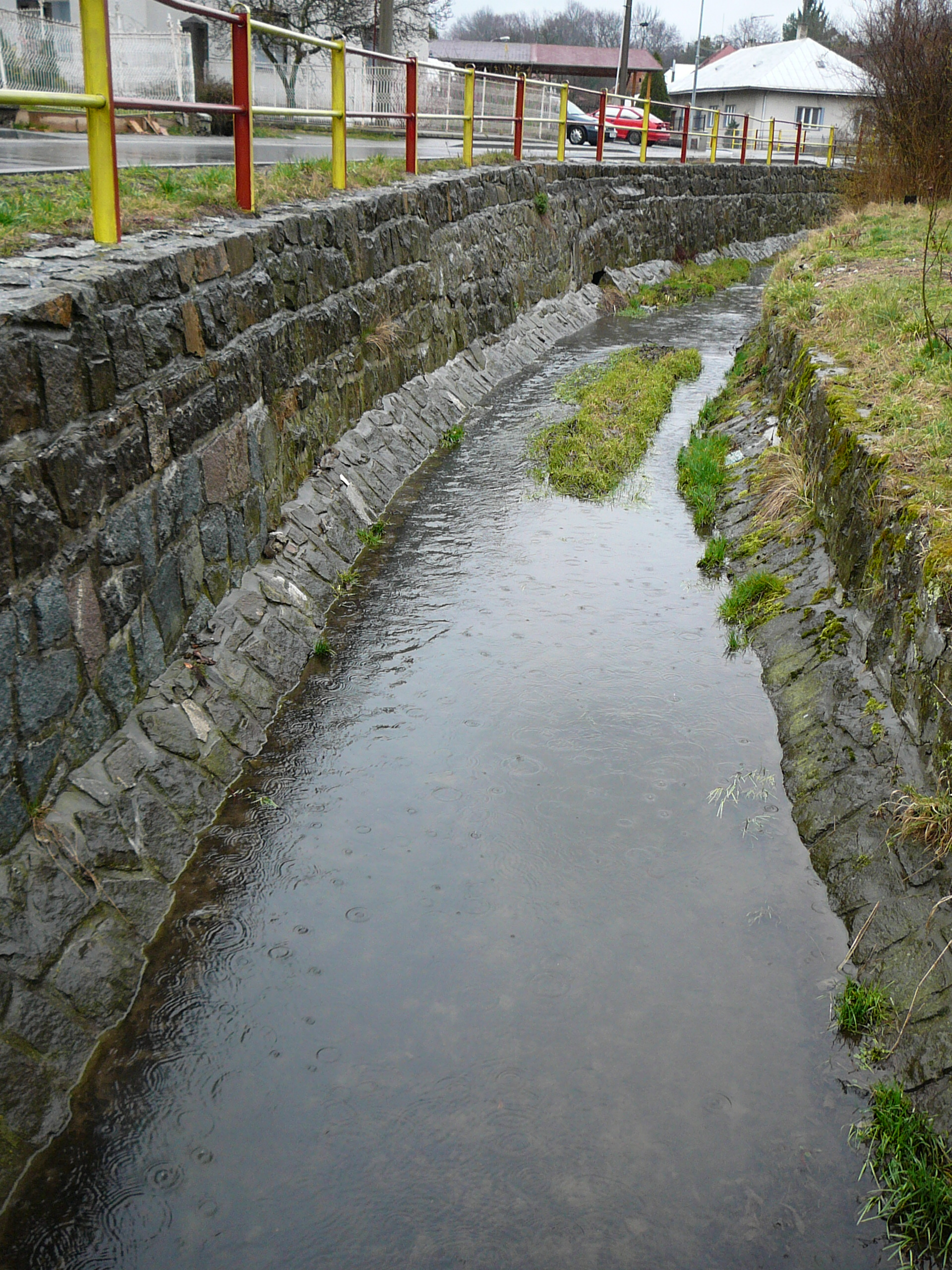 Fryštácký potok in Fryšták.